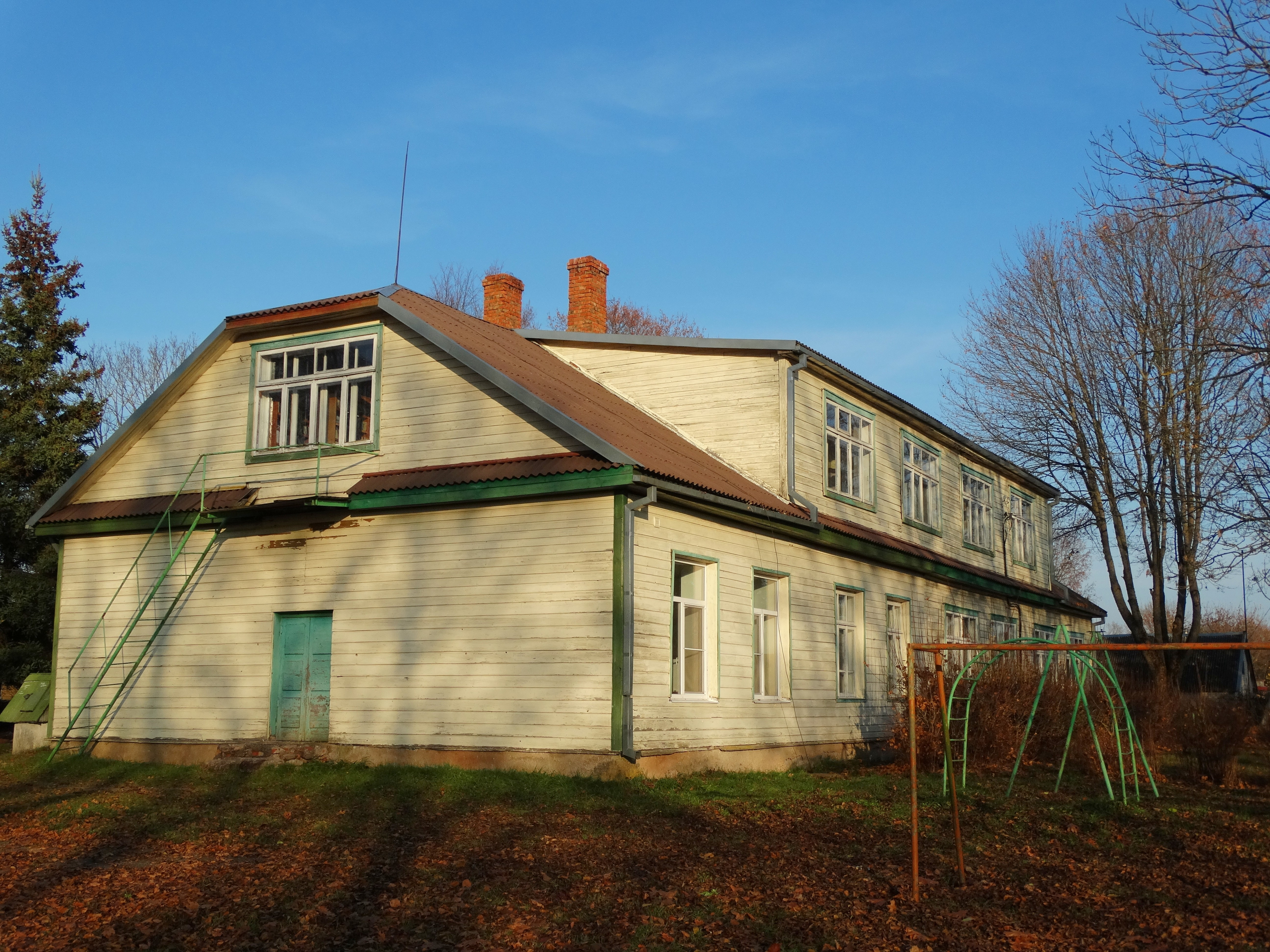 Basic school, Aviliai, Zarasai district, Lithuania